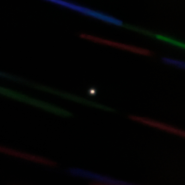 International Gemini Observatory image of 2020 CD3 (center, point source) obtained with the 8-meter Gemini North telescope on Hawaii’s Maunakea. The image combines three images each obtained using different filters to produce this color composite. 2020 CD3 remains stationary in the image since it was being tracked by the telescope as it appears to move relative to the background stars, which appear trailed due to the object’s motion.